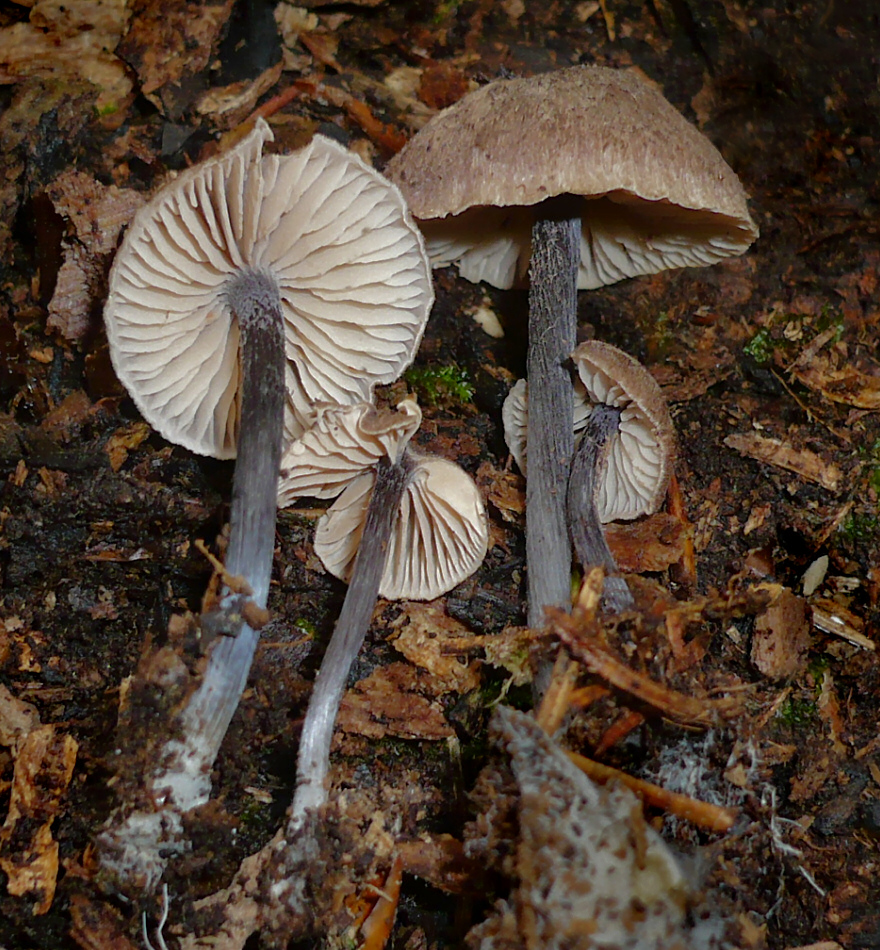 Entoloma dichroum Location: Roh, Hrebec, Bohemia, Czech Republic Observation Notes: [admin – Sat Aug 14 02:05:20 0000 2010]: Changed location name from ‘Roh,Hrebec,Bohemia,Czech Republic’ to ‘Roh, Hrebec, Bohemia, Czech Republic’ For more information about this, see the observation page at Mushroom Observer.